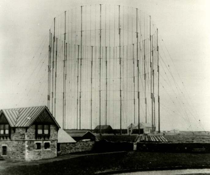 The first Marconi Company antenna system at its transatlantic radiotelegraphy station at Poldhu, Cornwall, UK. Guglielmo Marconi built this antenna beginning April 1901 to transmit the first transatlantic radio message to Canada. It consisted of 20 thin wooden masts in a circle supporting 200 wires in an inverted cone shape attached to the transmitter building. However on September 17, 1901 the antenna collapsed in a storm. Marconi quickly built a replacement antenna consisting of 54 wires in an inverted pyramid shape supported by 4 sturdy wooden towers. On 12 December 1901 Marconi reported the first transatlantic radio transmission from Poldhu to St. John a distance of 2300 miles.